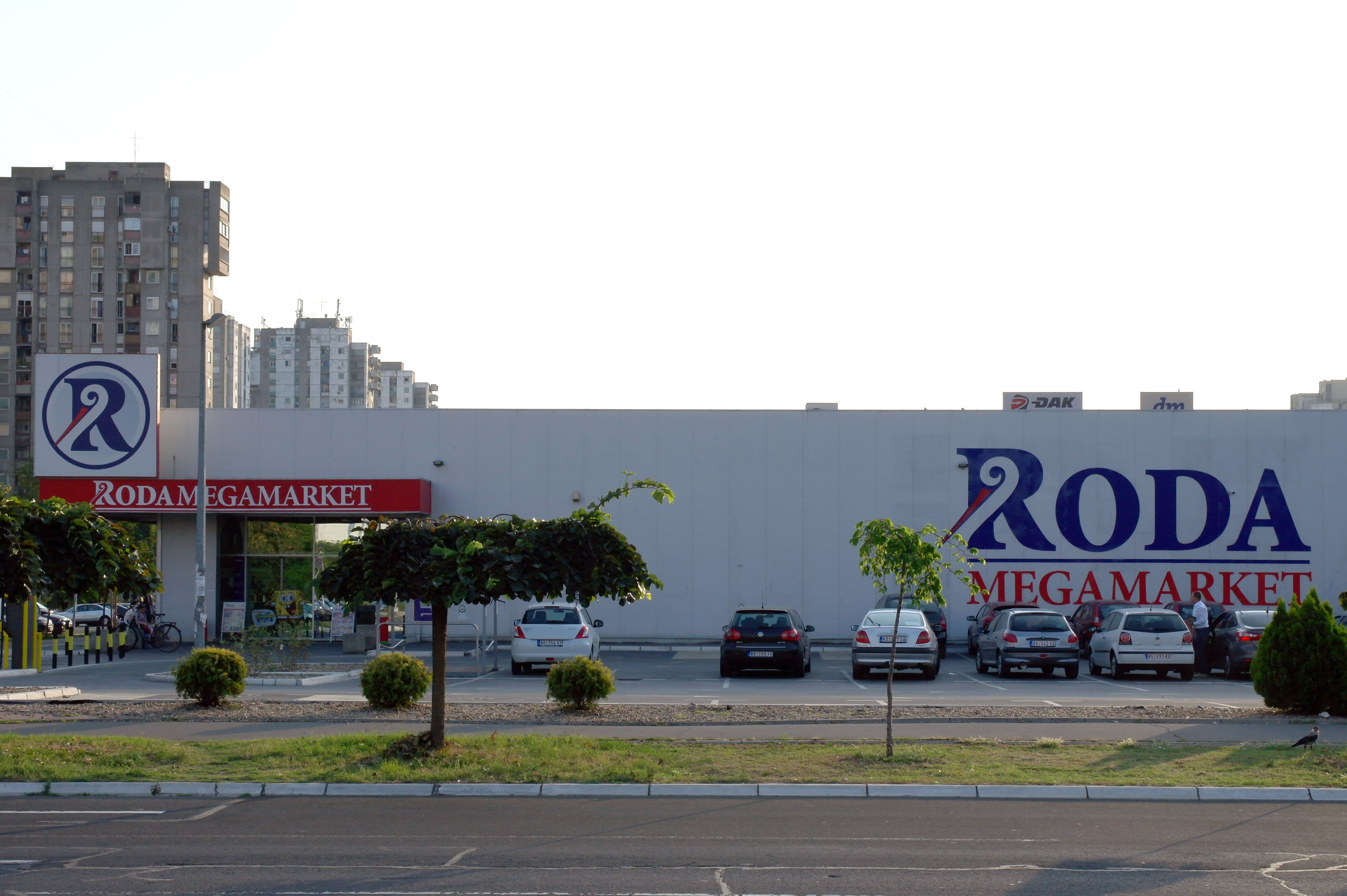 Roda Megamarket in New Belgrade's block 62Srpskohrvatski / српскохрватски: Roda Megamarket u bloku 62 na Novom Beogradu